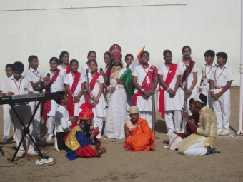 Independence Day Celebration